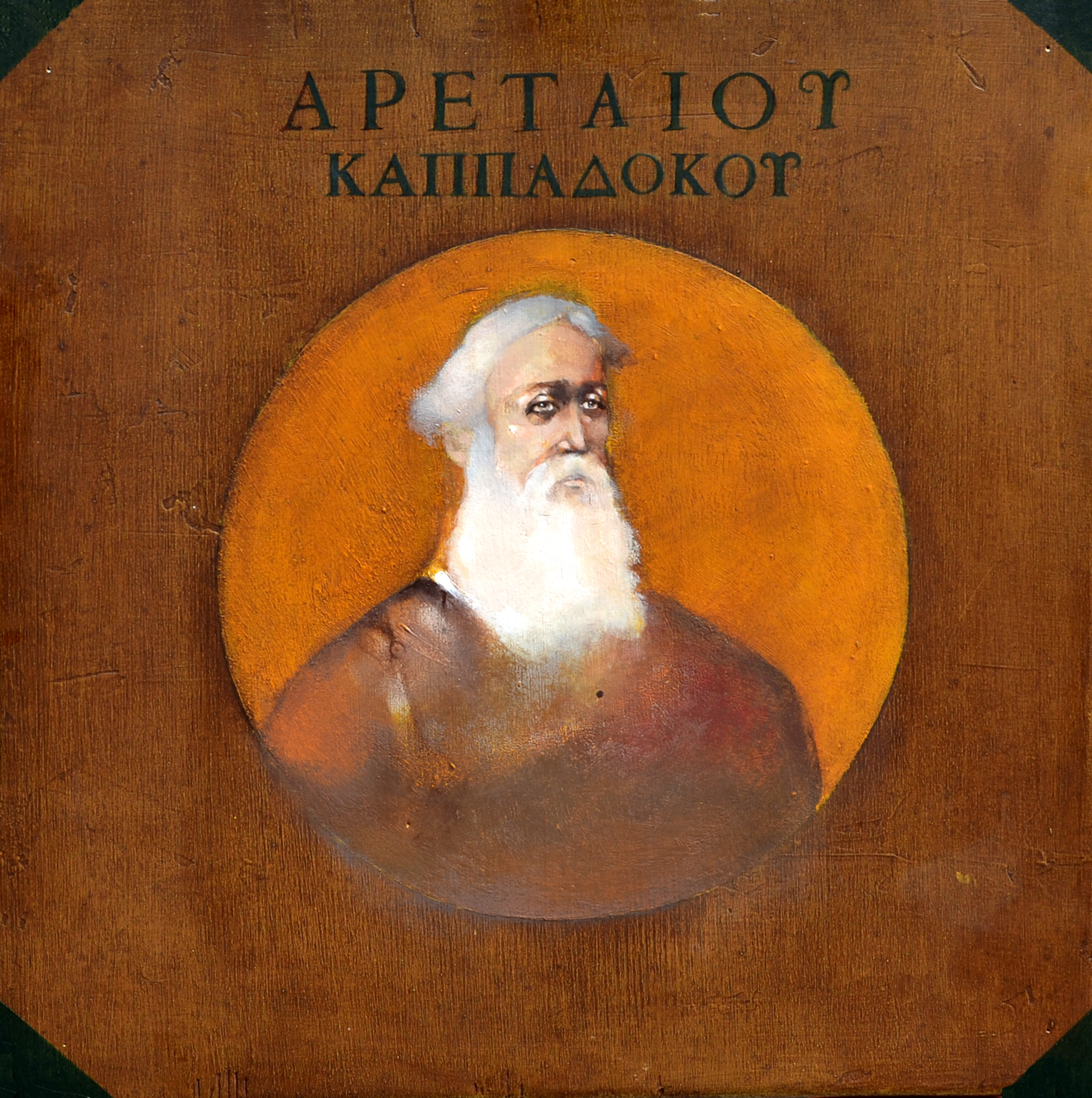 Oil on panel by Mahmut Karatoprak, 2015 (In the personal collection of Dr. Halil Tekiner, Kayseri)